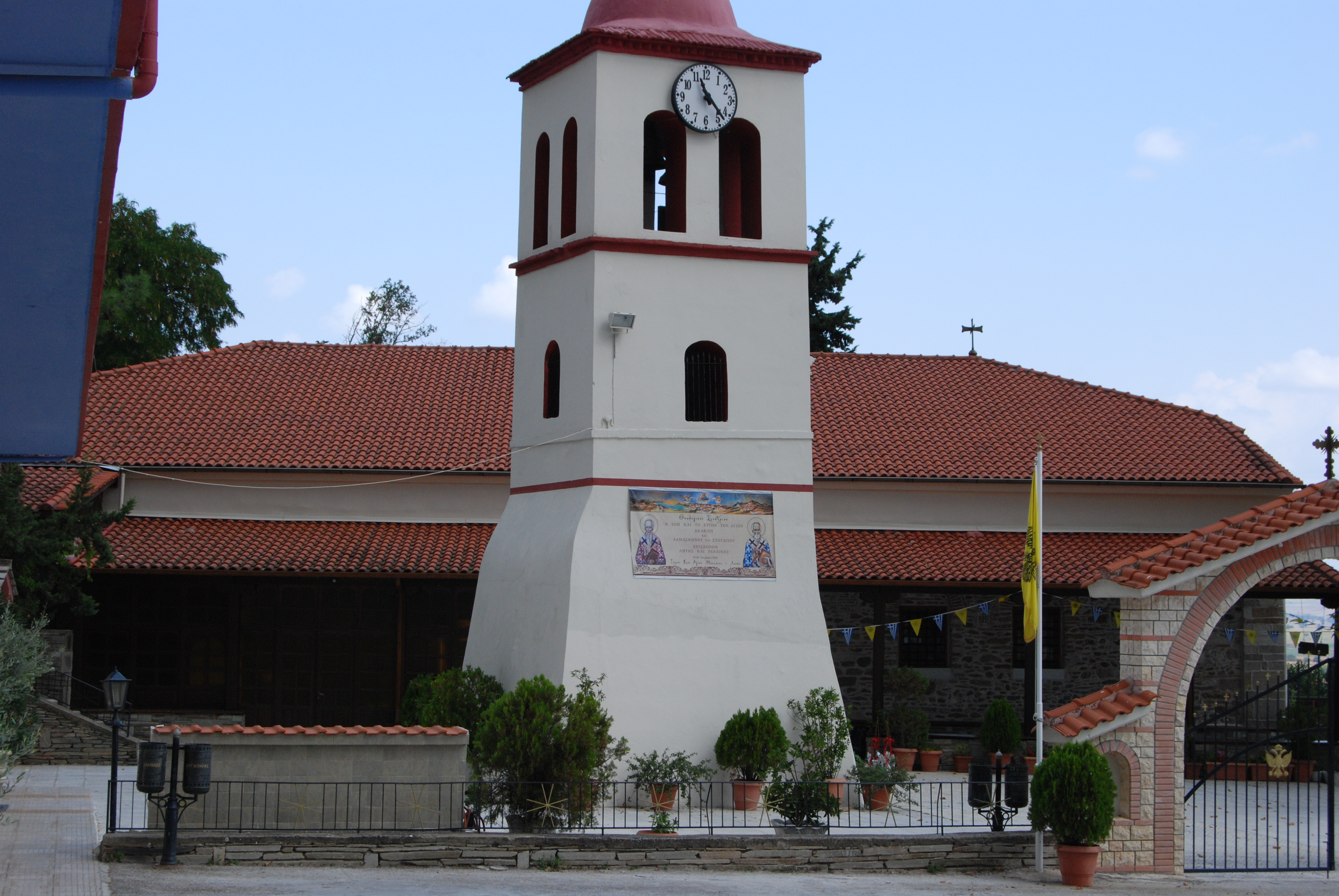 St. Athanasios Aivatovo